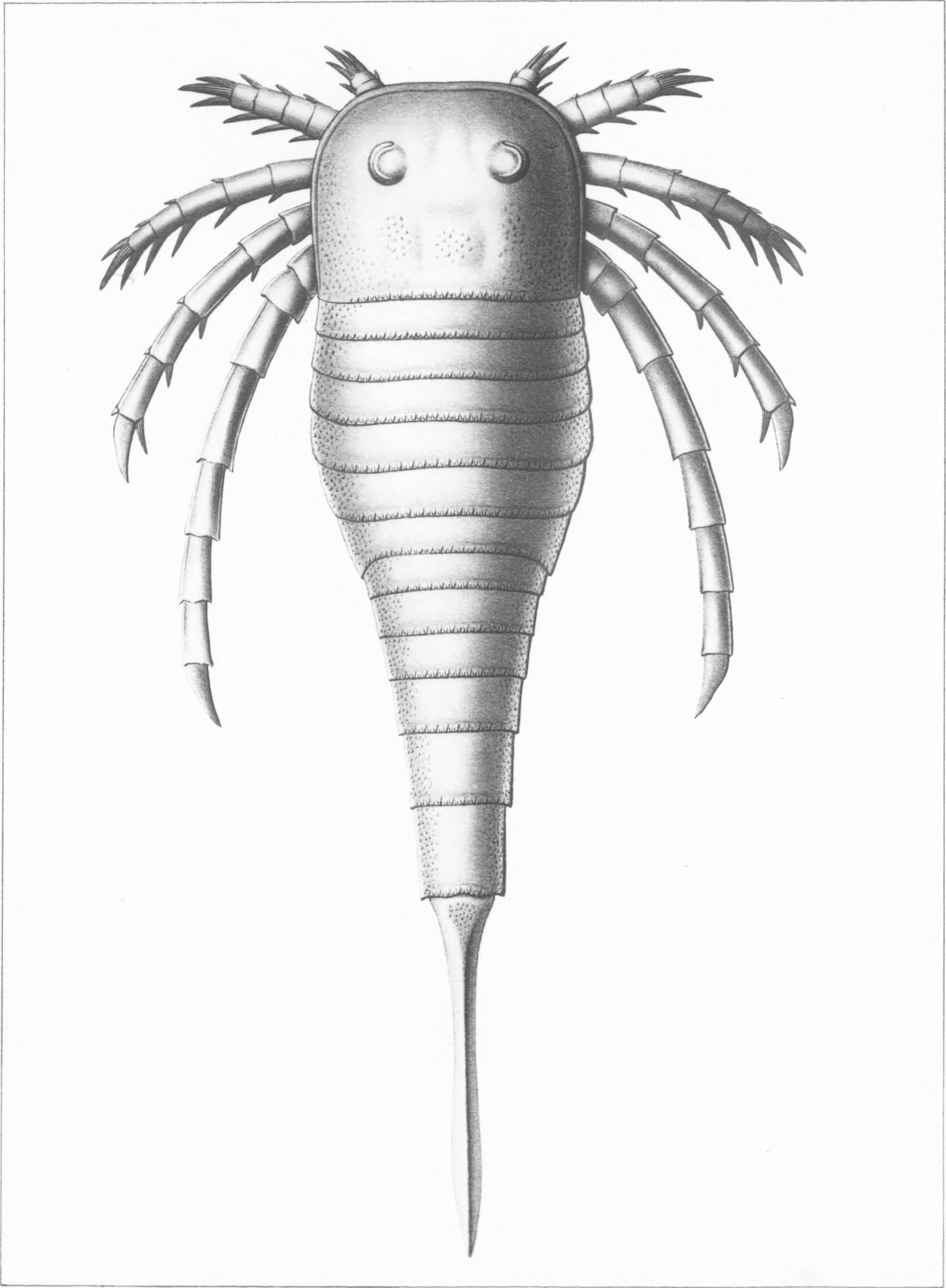 PLATE 54 Kokomopterus (Stylonurus, Drepanopterus) longicaudatus nov. Page 316 See plates 25, 55, 56 1 Restoration of dorsal aspect Memoir 14. N.Y.State Museum. The Eurypterida of New York. Volume 2. New York State Museum Memoir 14, plate 54